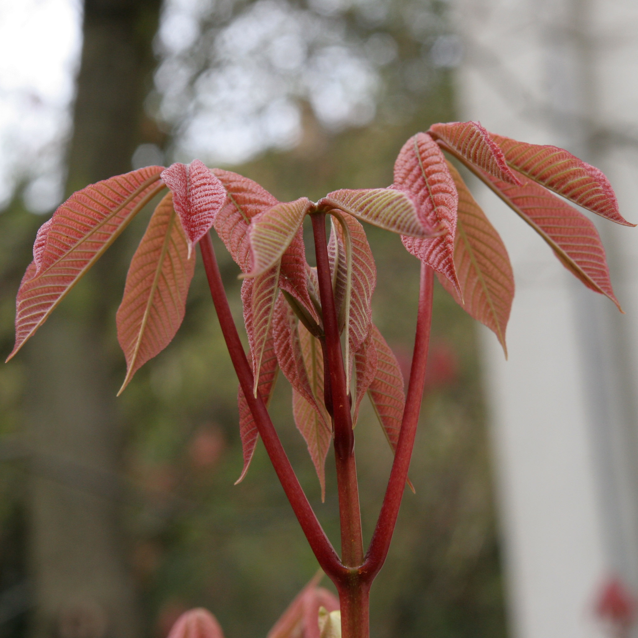 Bottlebrush Buckeye (Aesculus_parviflora), located in Germany (Bensheim, Hesse)